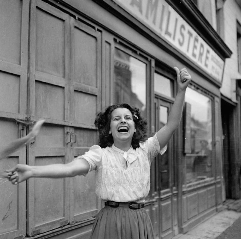 The Allied Campaign in North-west Europe, 6 June 1944 - 7 May 1945- Liberation of Gisors A girl in the French town of Gisors gives British troops a cheer and a "thumbs-up".